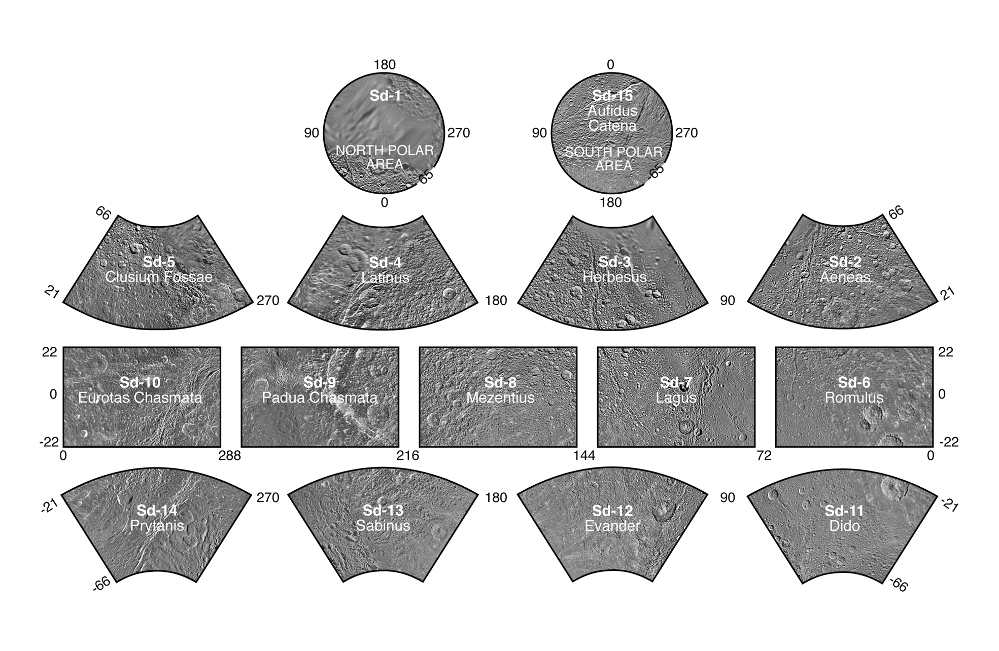 Presented here is a complete set of cartographic map sheets from a high-resolution Dione atlas, a project of the Cassini Imaging Team. The map sheets form a 15-quadrangle series covering the entire surface of Dione at a nominal scale of 1:1,000,000. An index for the atlas is included here, along with an unlabeled version of each terrain section. The map data was acquired by the Cassini imaging experiment. The mean radius of Dione used for projection of the maps is 562.53 kilometers (349.54 miles). Names for features have been approved by the International Astronomical Union.